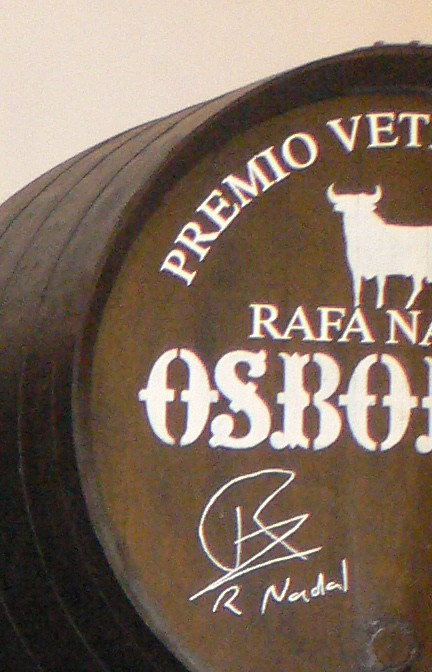 Sherry barrel signed by Rafa Nadal in Andalusia (Spain)